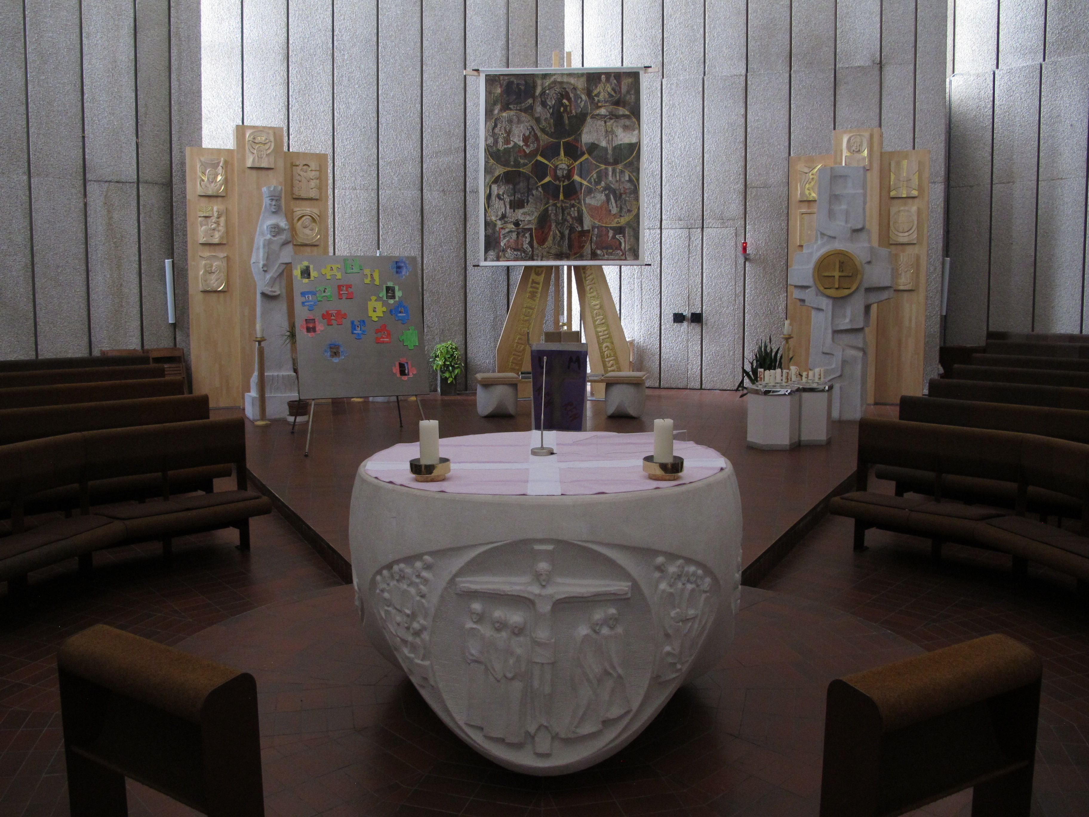 New Church Stegersbach